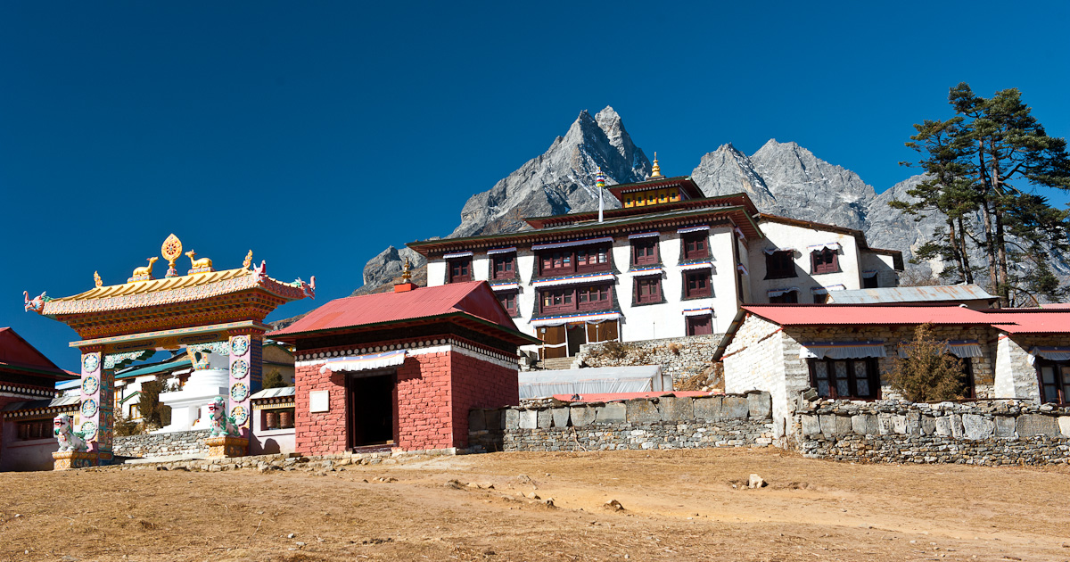 Nepal, Himalayas